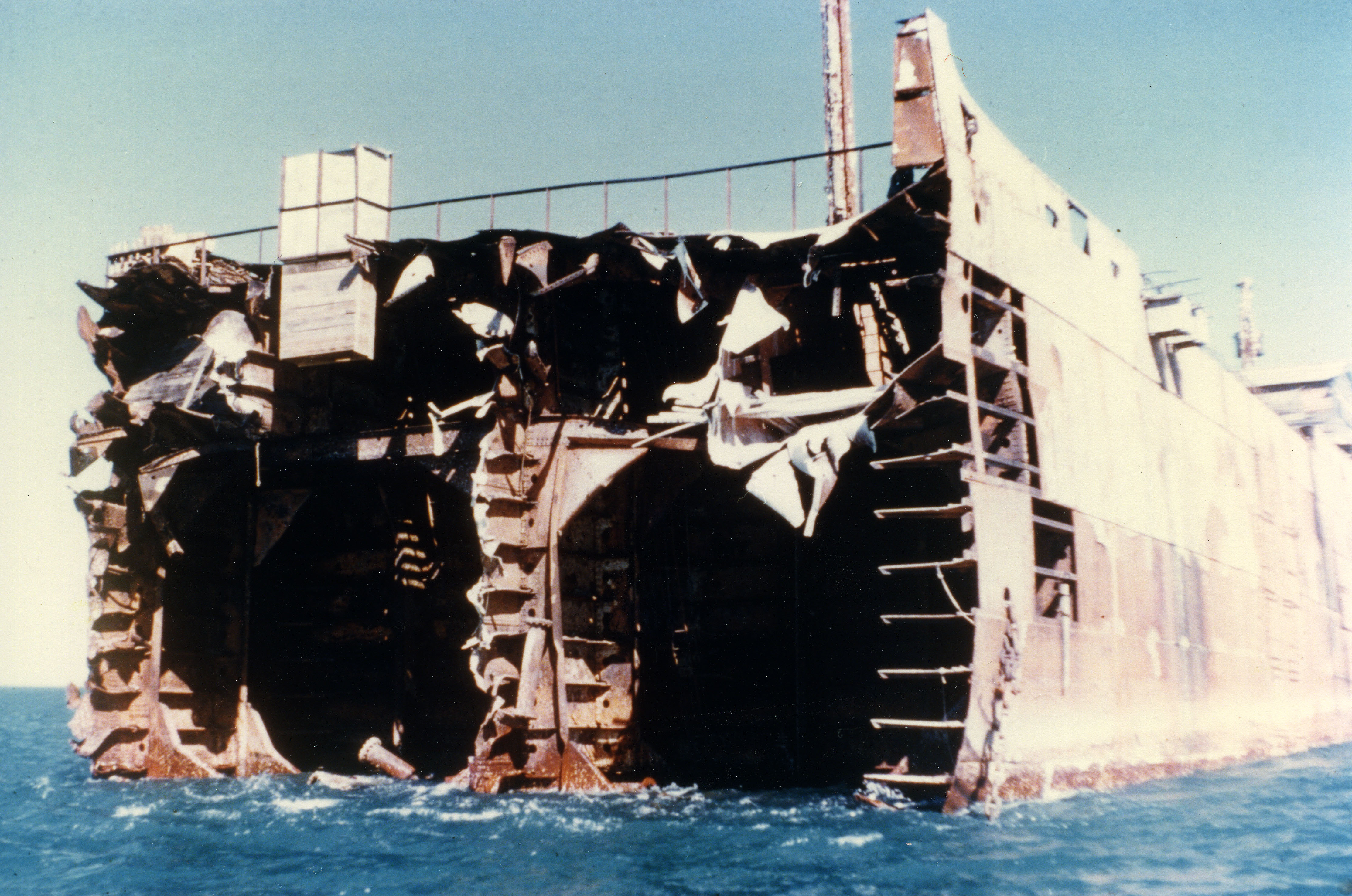 MV British Motorist being salvaged in Darwin Harbour in the Northern Territory of Australia. It was salvaged by the Fujita Salvage Company in 1959. The staff lived aboard the vessel.